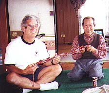 Sensei Advincula receiving Master Shimabuku's bo cover from Shinsho Shimabuku